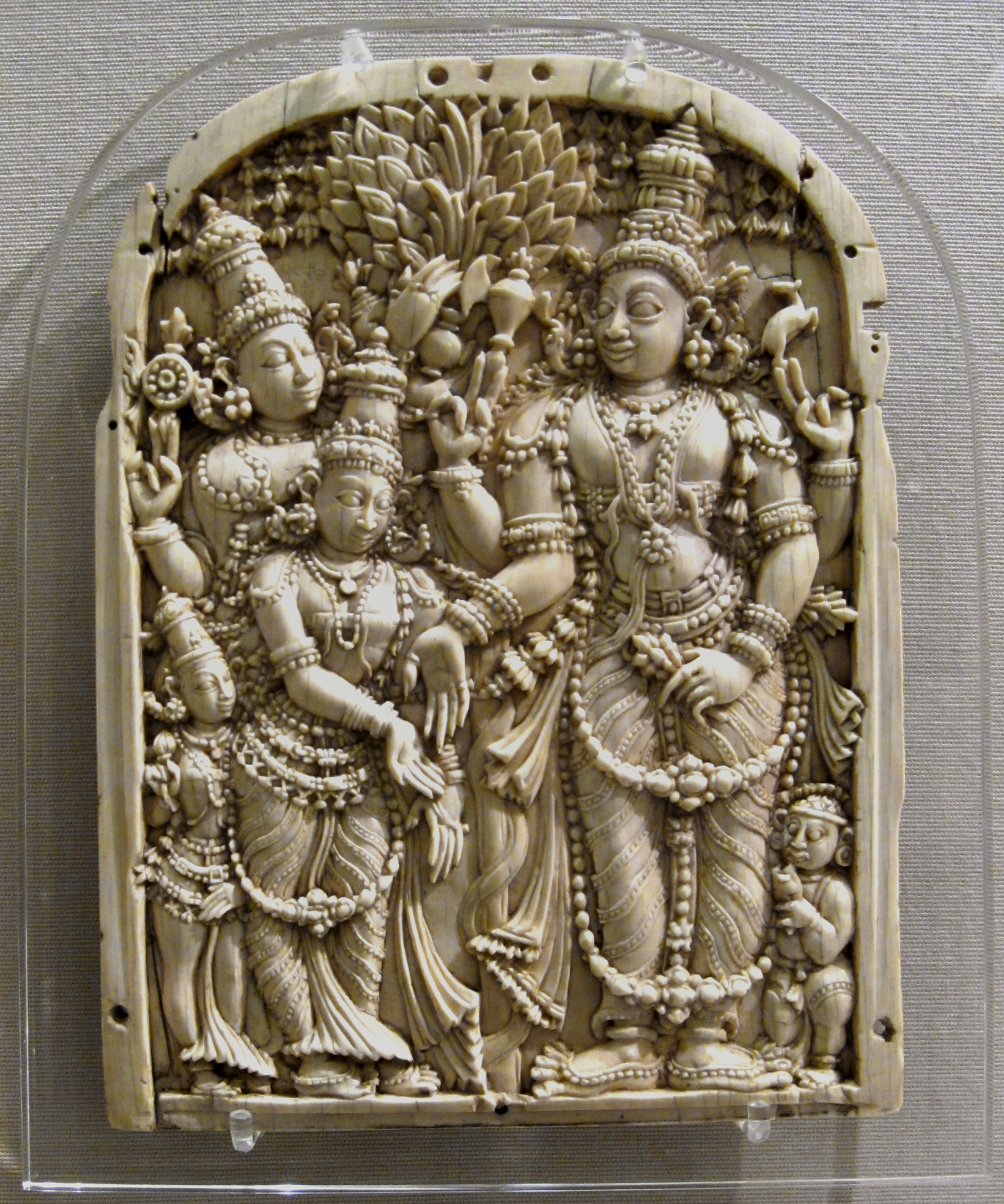 Plaque The Marriage of Shiva & Parvati : The Wedding of The Charming One Carved ivory with traces of tamarind juice Southern Indian (Madurai) 1766 The ceremony or Kalyanasundaramurti is witnessed by Vishnu and Lakshmi. They stand at the left, Vishnu holding together with the normal attributes, a golden pot, from which he pours at the moment of uniting the couple. Shiva and Parvati, wearing jatamakutas or high crowns and royal ornaments, offer their hands with palms open. Shiva bears his attributes of a mriga(deer) and parashu (battle-axe) and in his addition holds a flower or spray of flowers in his lower left hand. Wikipedia Loves Art at the Victoria and Albert Museum This photo of item # [1] at the Victoria and Albert Museum was contributed under the team name "the_arty_facts" as part of the Wikipedia Loves Art project in February 2009. Victoria and Albert Museum The original photograph on Flickr was taken by art_traveller—please add a comment to the original Flickr page whenever a use has been made on Wikipedia or another project. Project galleries on Flickr: this institution, this team